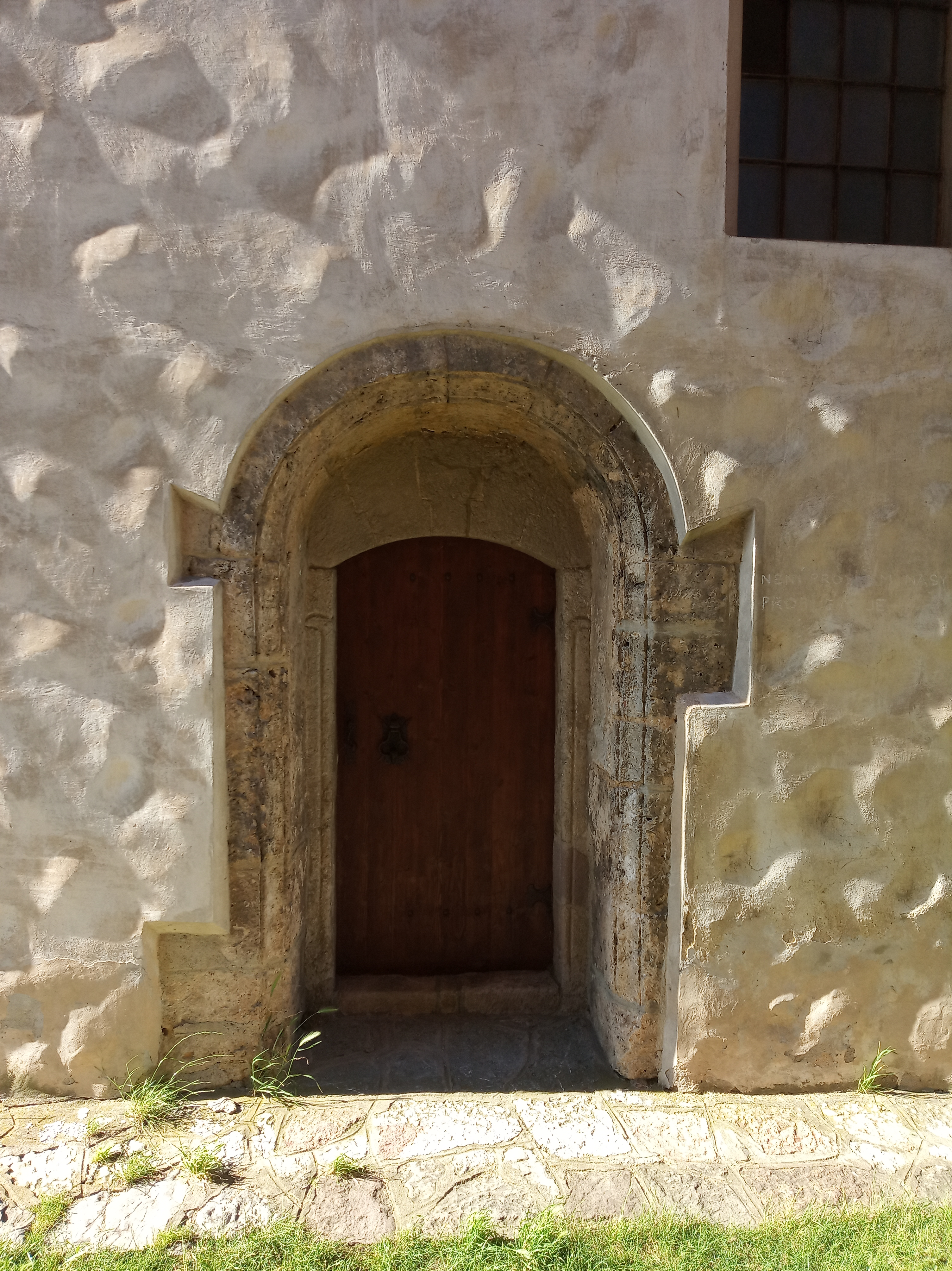 Romanesque south portal of the church of Saint Catherina in Tetín by Beroun